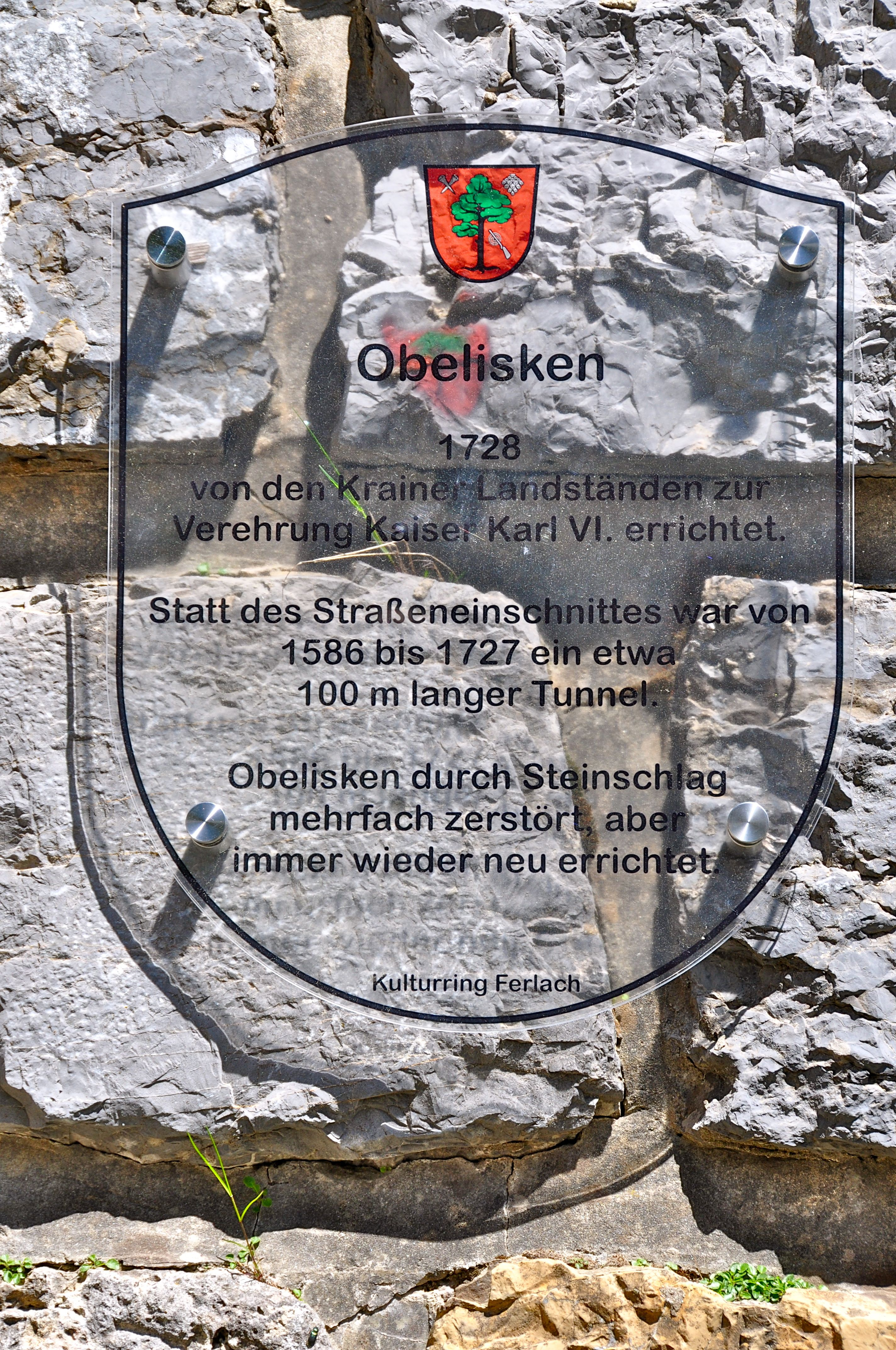 Description of the obelisks on the mountain pass "Old Loibl", Loibltal, municipality Ferlach, district Klagenfurt Land, Carinthia, Austria